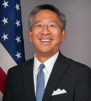 Donald Lu, Ambassador to the Republic of Albania